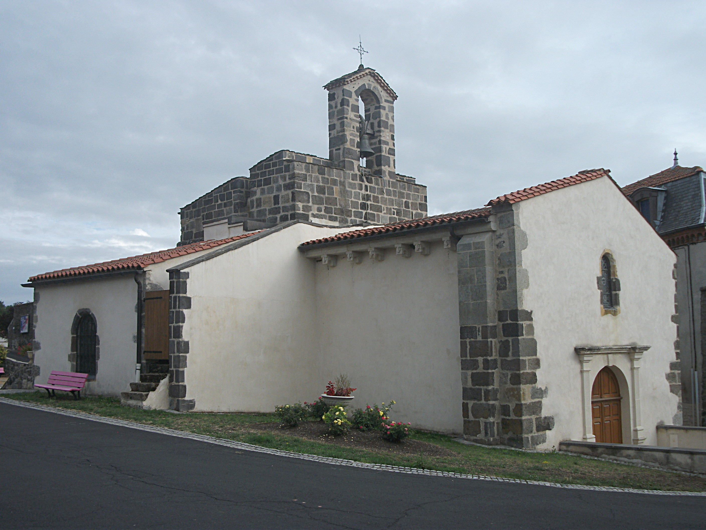 Church of Pardines, Puy-de-Dôme, Auvergne-Rhône-Alpes, France. [18962]